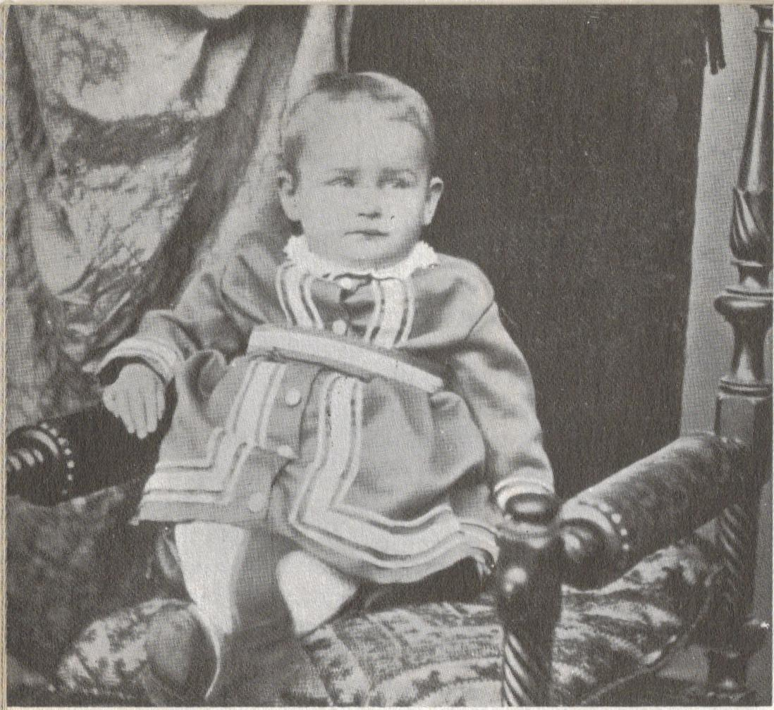 Christian Morgenstern as a child. Date: Between 1871 and 1889 Licensing This work is in the public domain in its country of origin and other countries and areas where the copyright term is the author's life plus 70 years or fewer. You must also include a United States public domain tag to indicate why this work is in the public domain in the United States. Note that a few countries have copyright terms longer than 70 years: Mexico has 100 years, Jamaica has 95 years, Colombia has 80 years, and Guatemala and Samoa have 75 years. This image may not be in the public domain in these countries, which moreover do not implement the rule of the shorter term. Côte d'Ivoire has a general copyright term of 99 years and Honduras has 75 years, but they do implement the rule of the shorter term. Copyright may extend on works created by French who died for France in World War II (more information), Russians who served in the Eastern Front of World War II (known as the Great Patriotic War in Russia) and posthumously rehabilitated victims of Soviet repressions (more information). This file has been identified as being free of known restrictions under copyright law, including all related and neighboring rights.